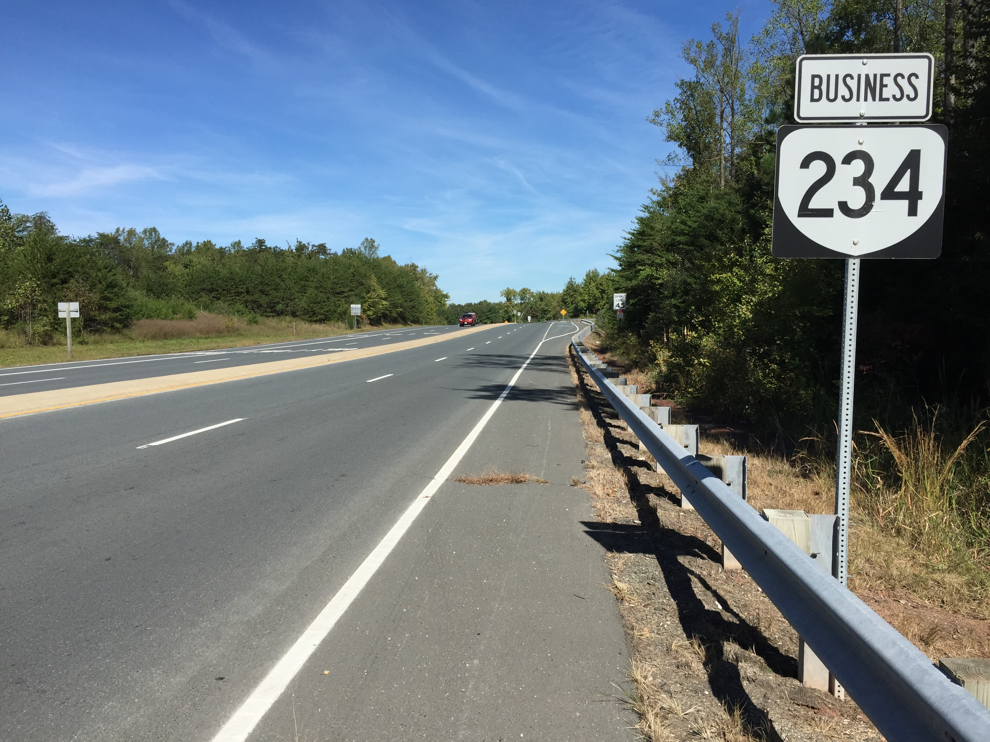 View north along Virginia State Route 234 Business (Dumfries Road) at Virginia State Route 234 (Prince William Parkway) in Buckhall, Prince William County, Virginia